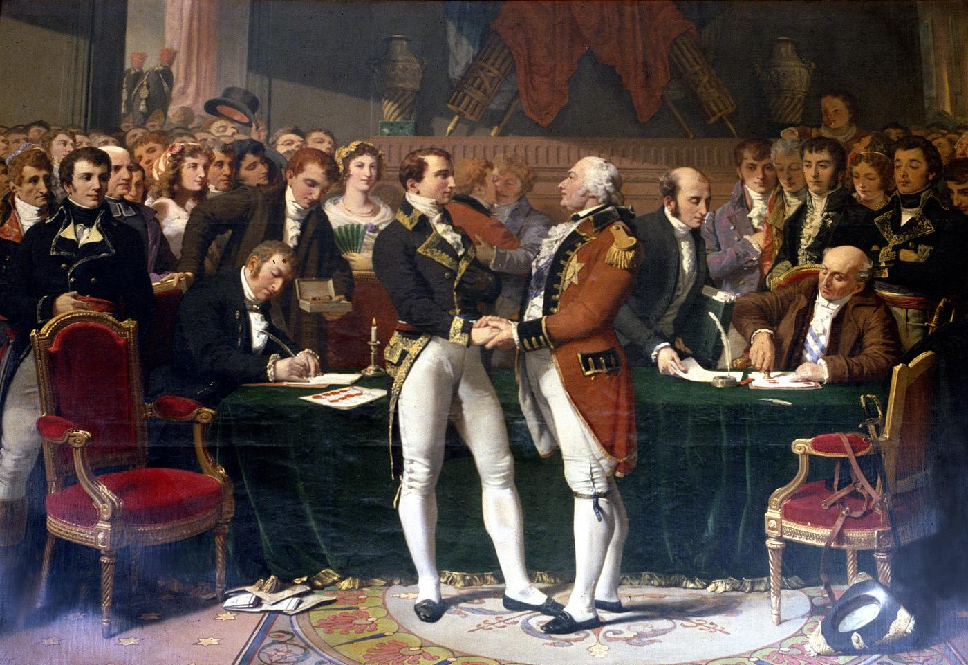 painting depicting the signing of Treaty of Amiens, between France and Britain, signed by Napoleon and Cornwallis